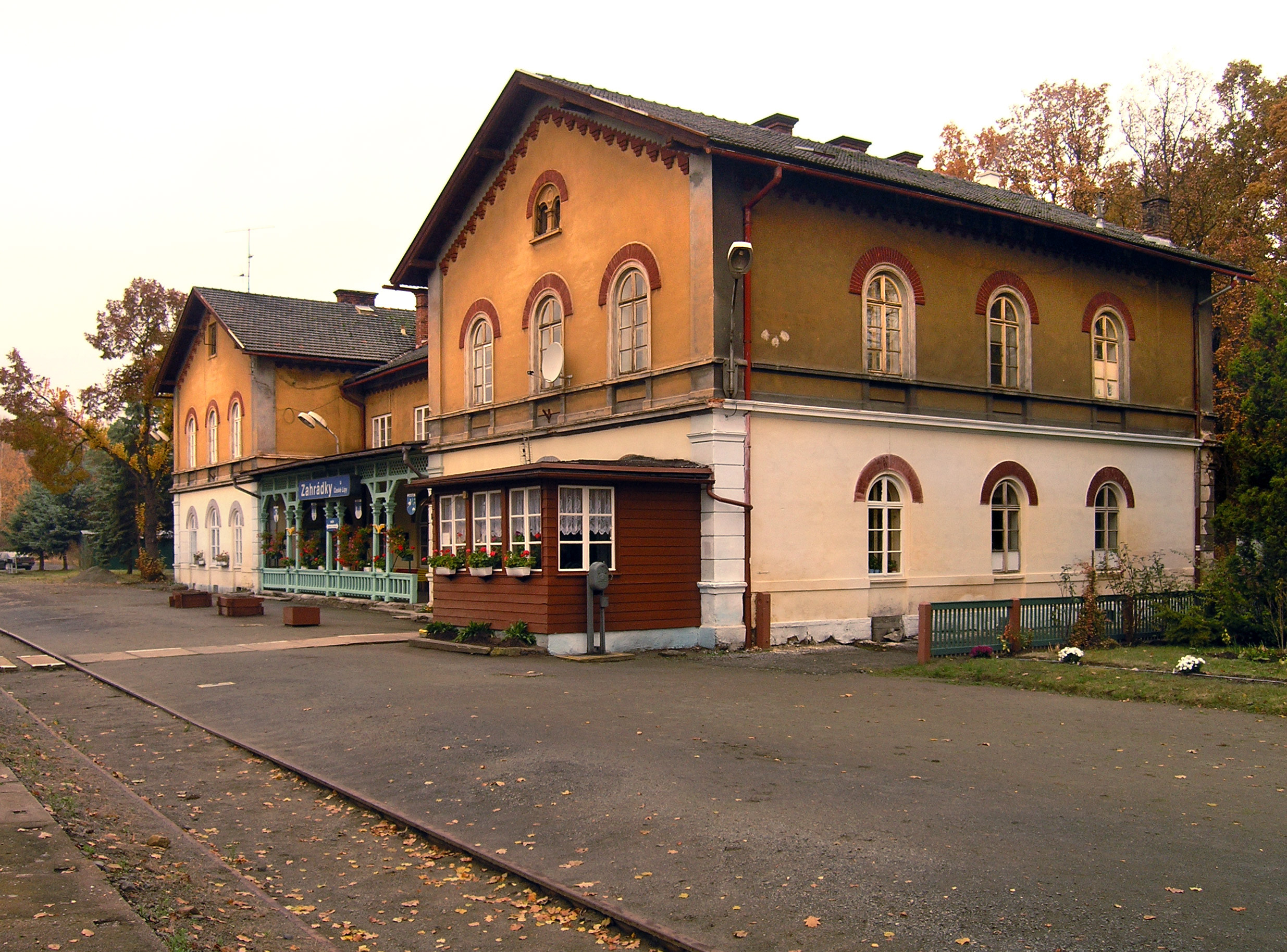 Train station in Zahrádky village, Czech Republic